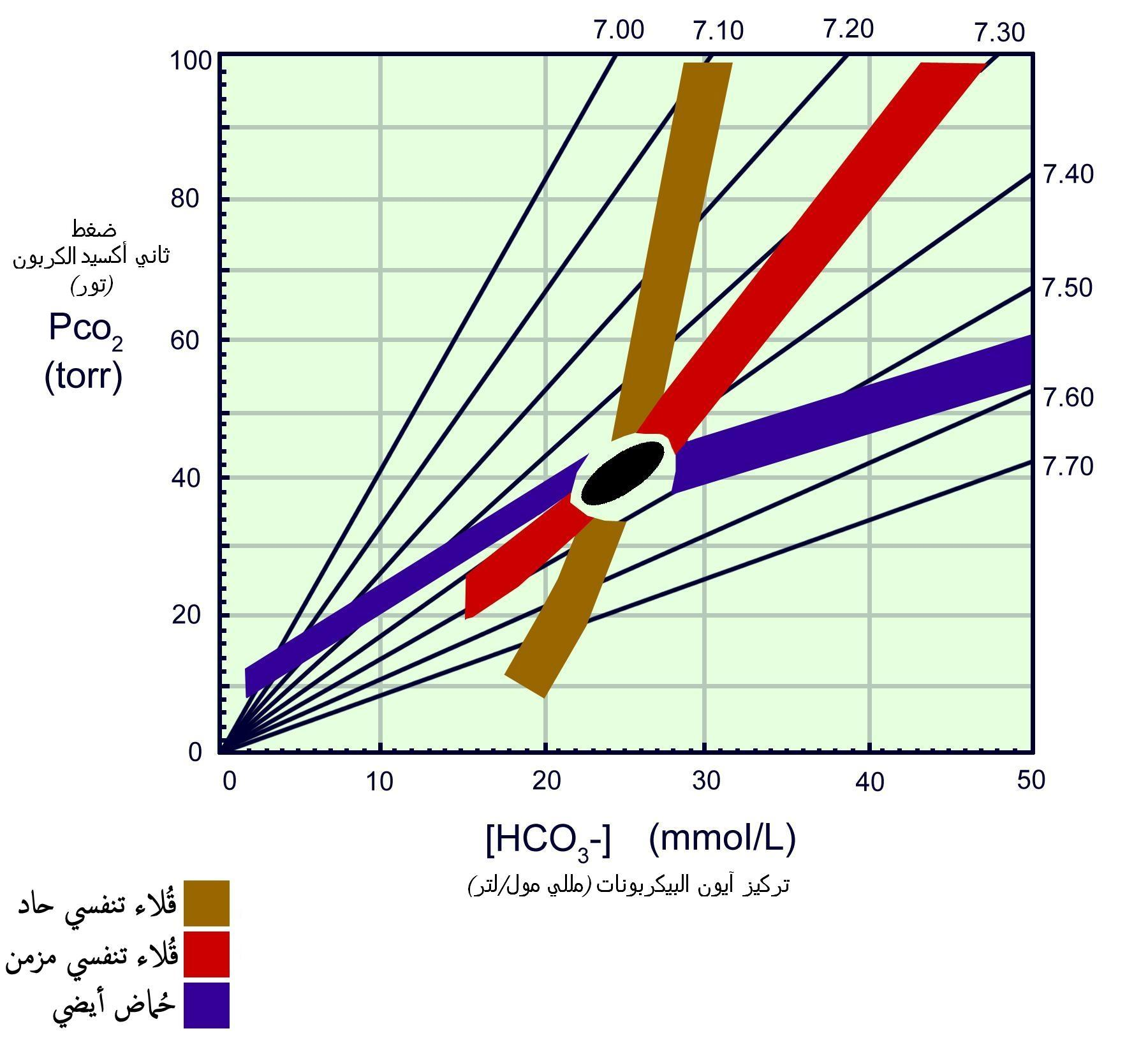 Acid-base nomogram shows confidence bands for simple acid-base disturbances. Conversion factor is 1 torr = 0.13 kPa